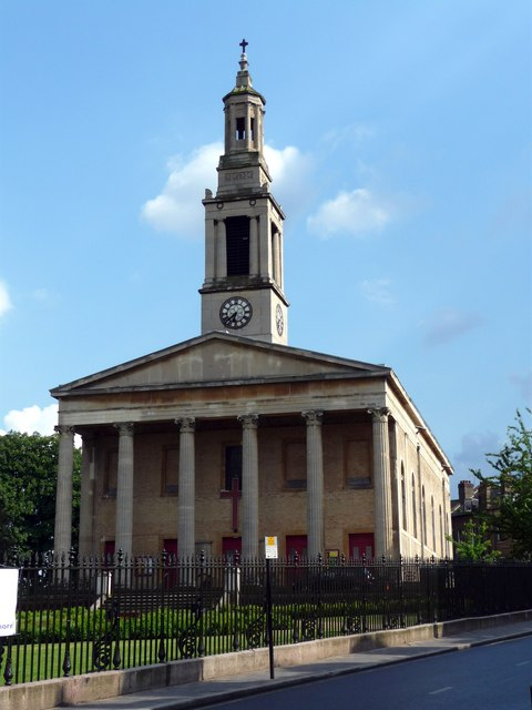 St Luke, West Norwood, near to West Norwood, Croydon, Great Britain. St Luke was designed by Francis Bedford in 1822. It is within the West Norwood Conservation Area. Grade II* listed. It is one of four Commissioners� Churches in Lambeth, the others being St John Waterloo Road, St Mark Kennington and St Matthew Brixton.